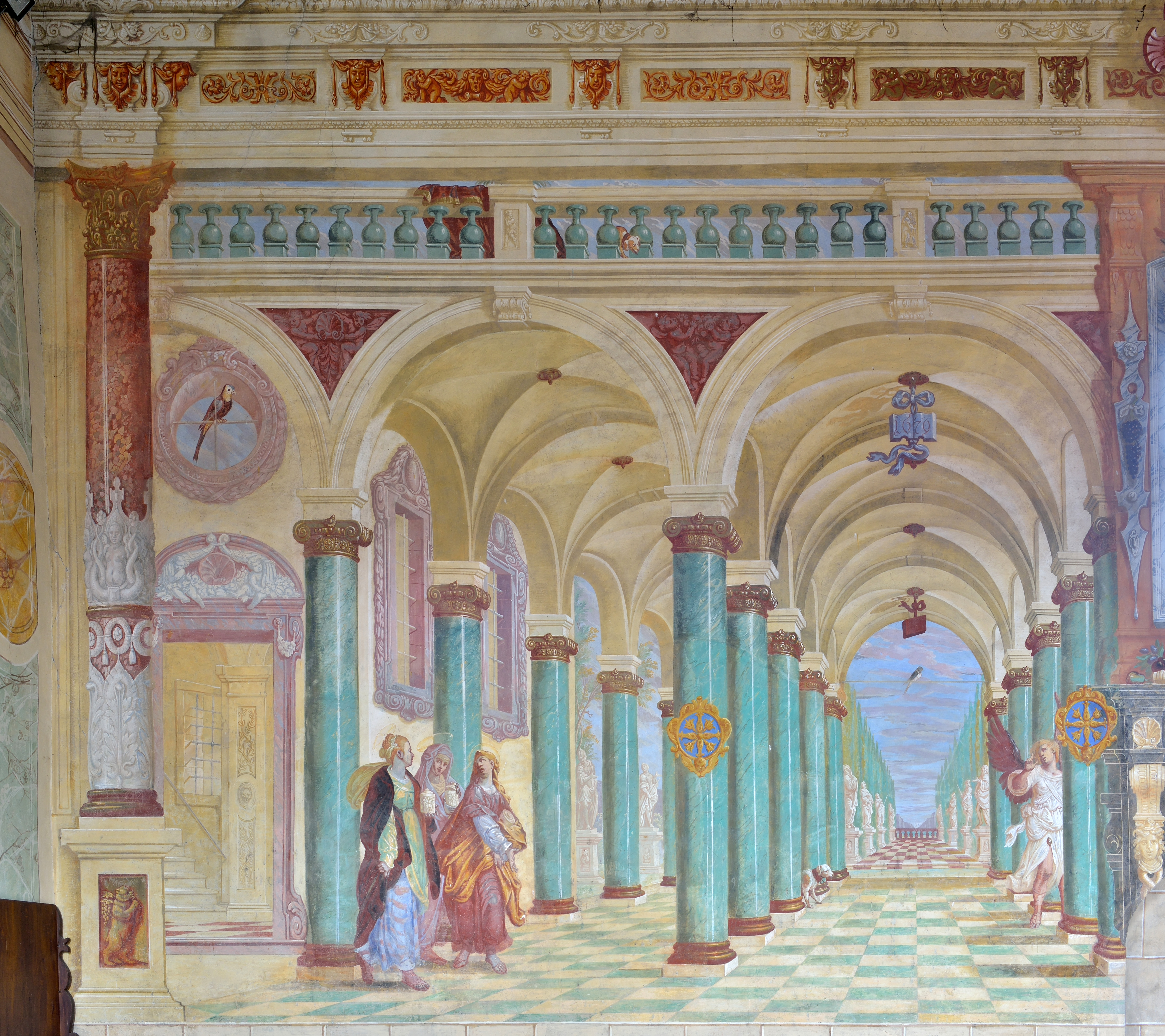 Holy Cross church in the Säben Abbey in South Tyrol - Trompe-l'œil fresco